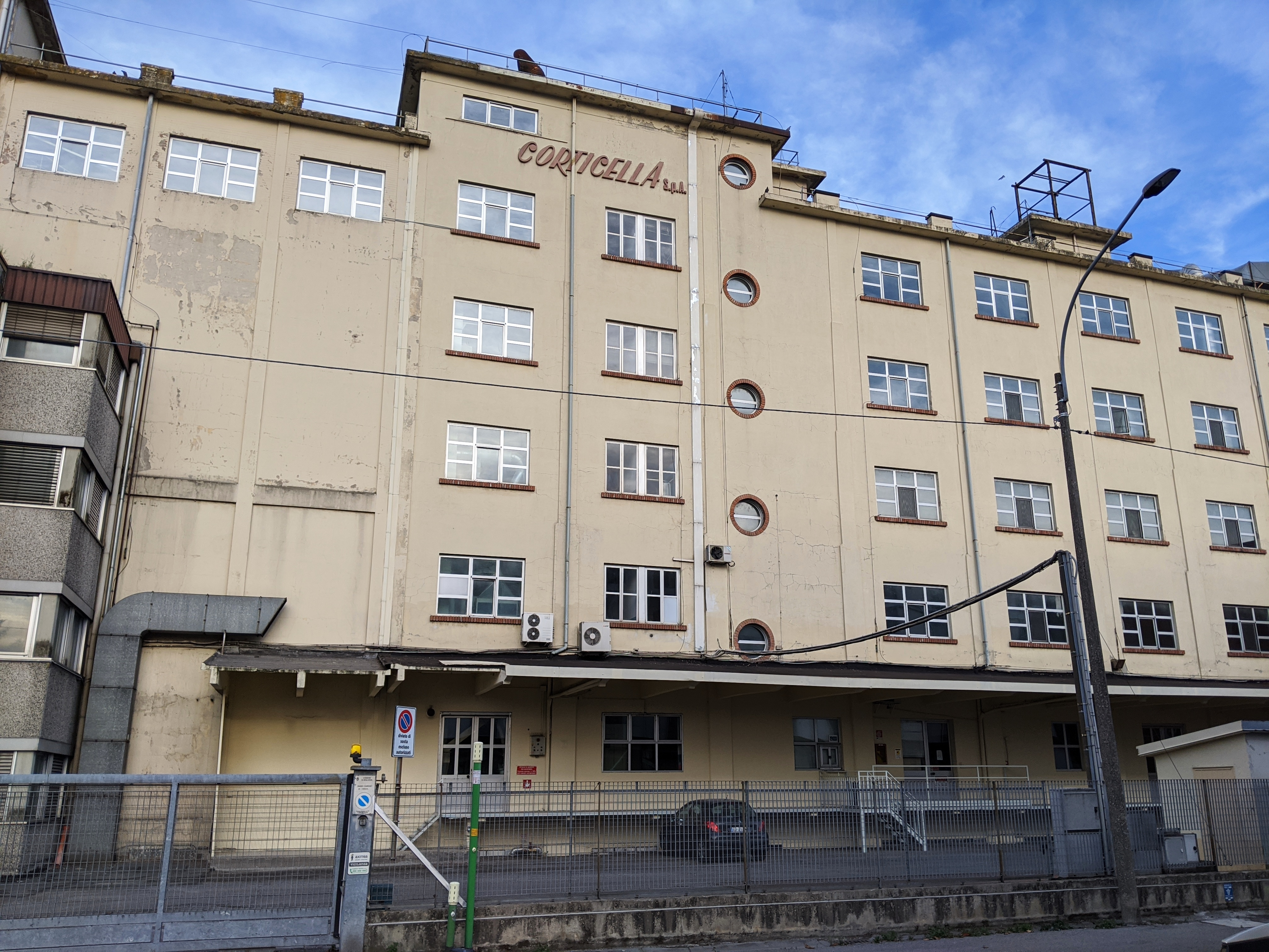 "Pastificio Corticella" pasta factory in Corticella, Bologna, Italy